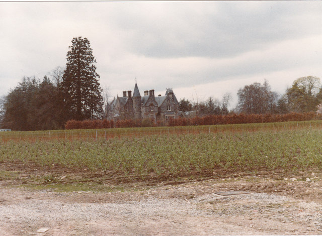 Lentran House from the East Drive Grade B listed Building originally a Provosts house and mansion house for Lentran Estates briefly a nursing home and now converted into apartments.